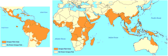 Map showing the distribution of Dengue incidents in the world.